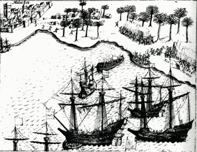 Siege of Malacca by Cornelis Matelief, 1606. Malacca can be seen in the background. Dutch come ashore in sloops and advance on the city.